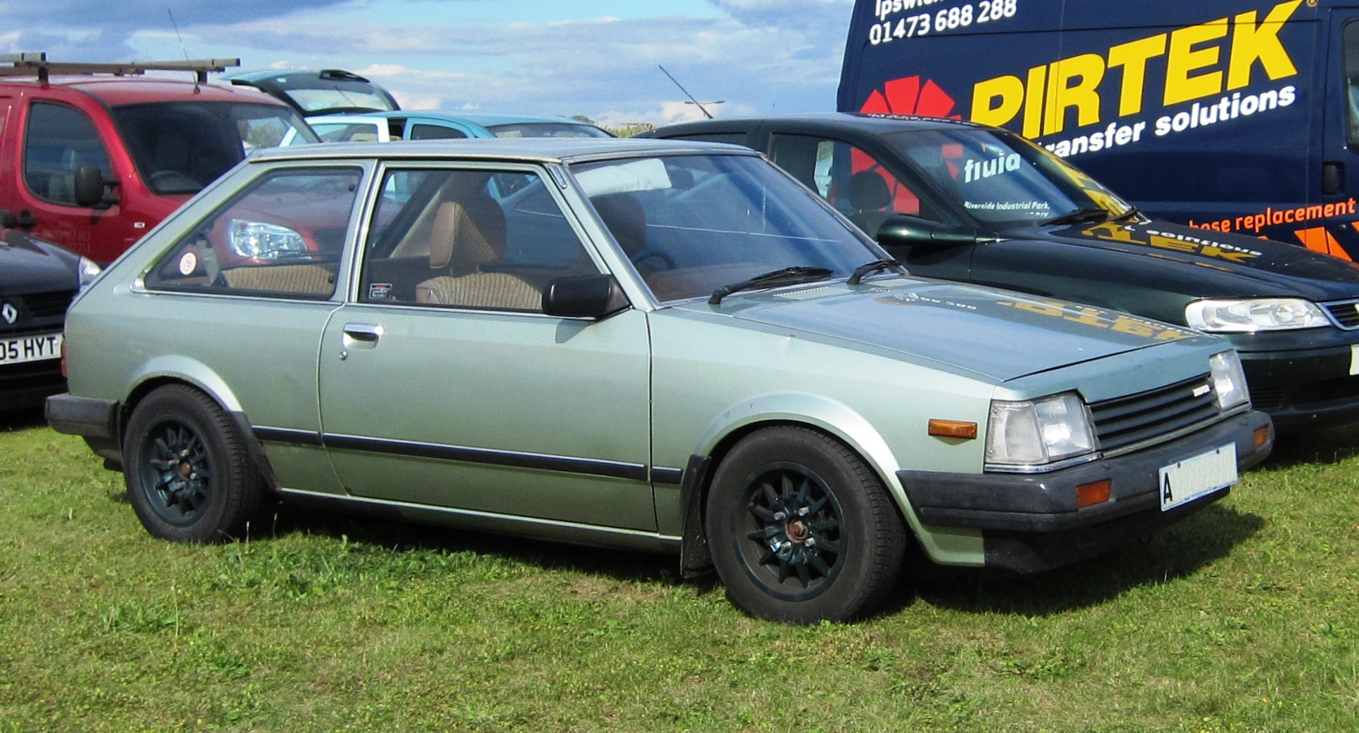 Mazda 323 (BD) at Snetterton